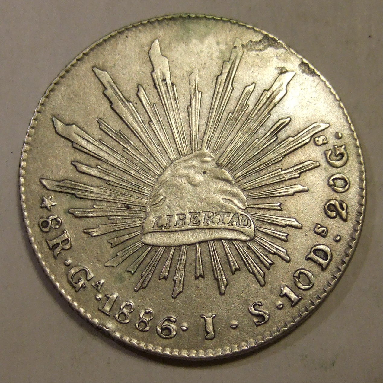 By 1886 the Spanish piece of eight disappeard from history but in Mexico the eight reales denomiation also known as a peso continued to be minted in Mexico.